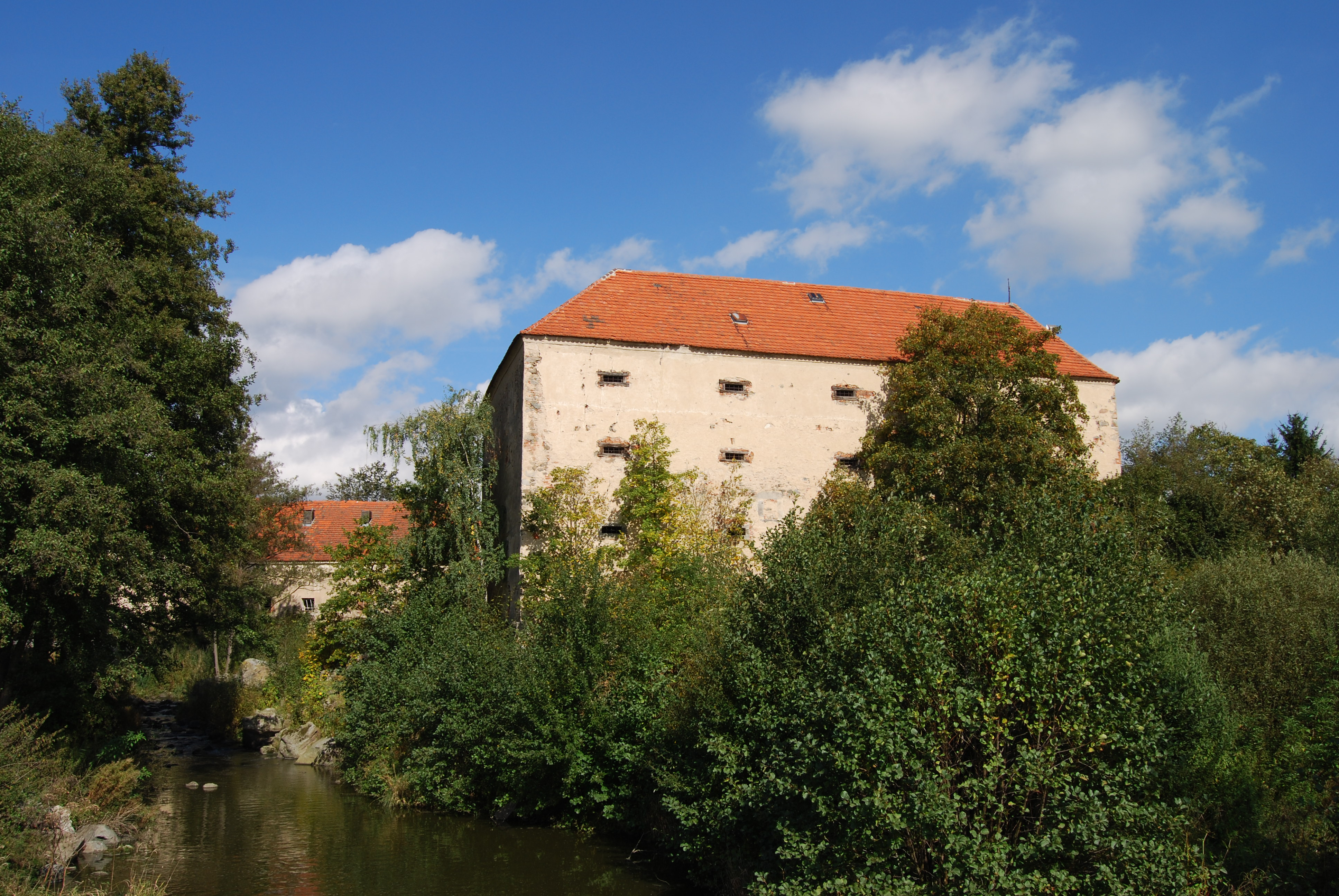 Tchořovice village in Strakonice District, Czech Republic.